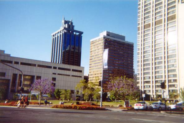 The white Law Courts building and the blue State Law Building ( this photograph was taken by Figaro )